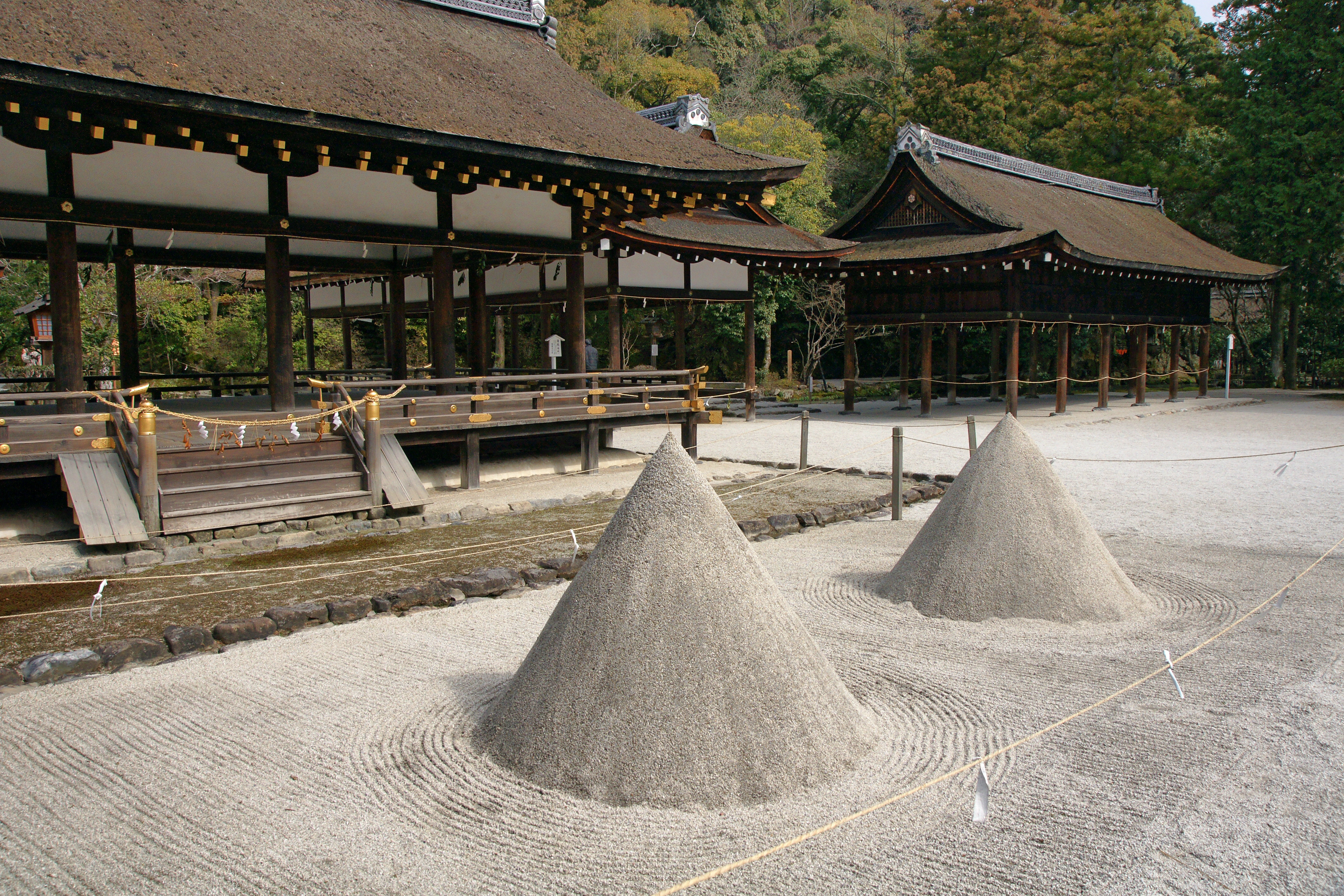 Kamowakeikazuchi-jinja (Kamigamo-jinja) in Kita-ku, Kyoto, Kyoto Prefecture, Japan